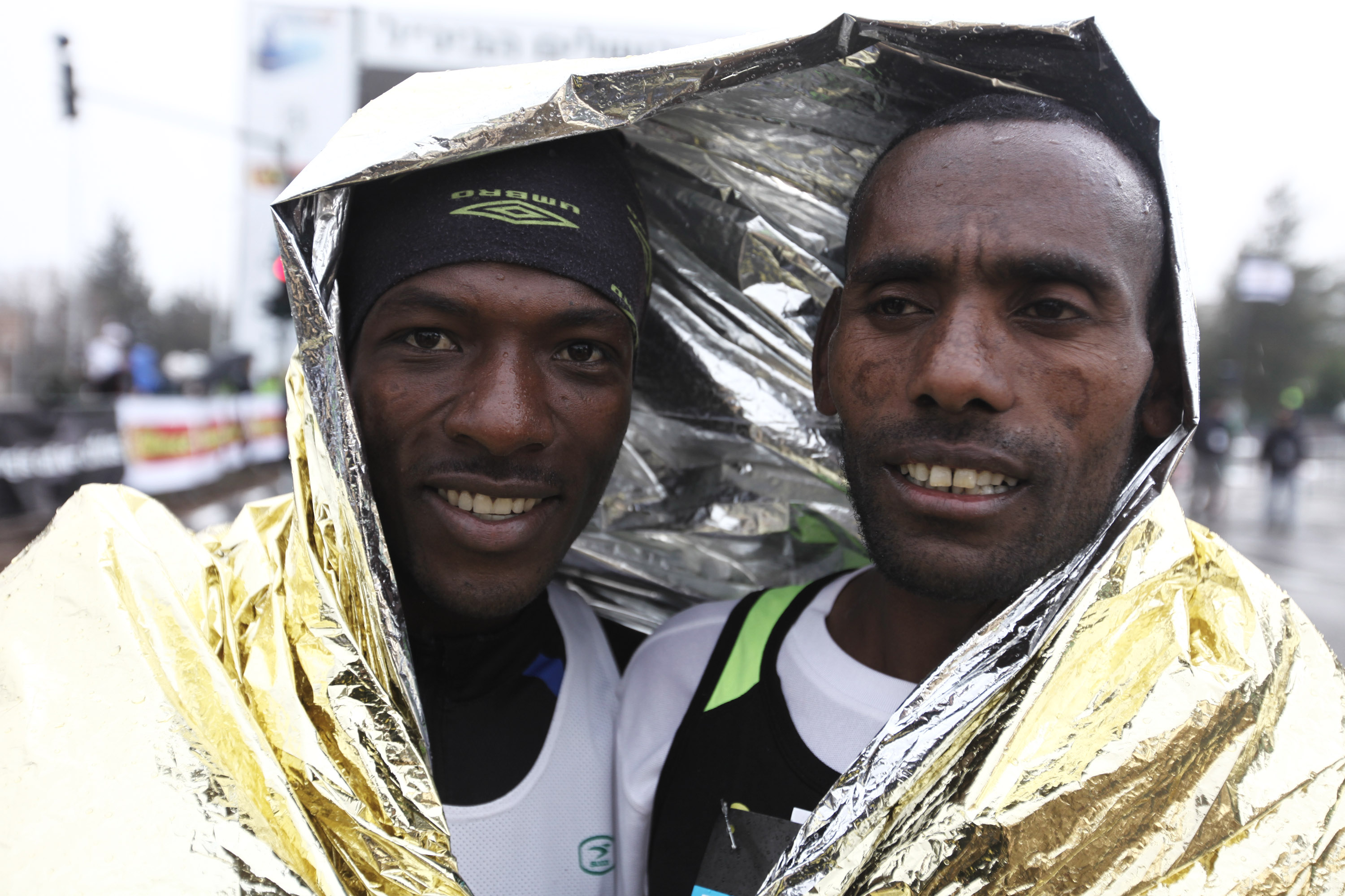 Photo by Kobi Gideon / Flash90 - Jerusalem Marathon 2012 - Derech Ruppin - few minutes before the departure of the Full Marathon (start time : 07:00) - Runners with Space blanket. Jerusalem